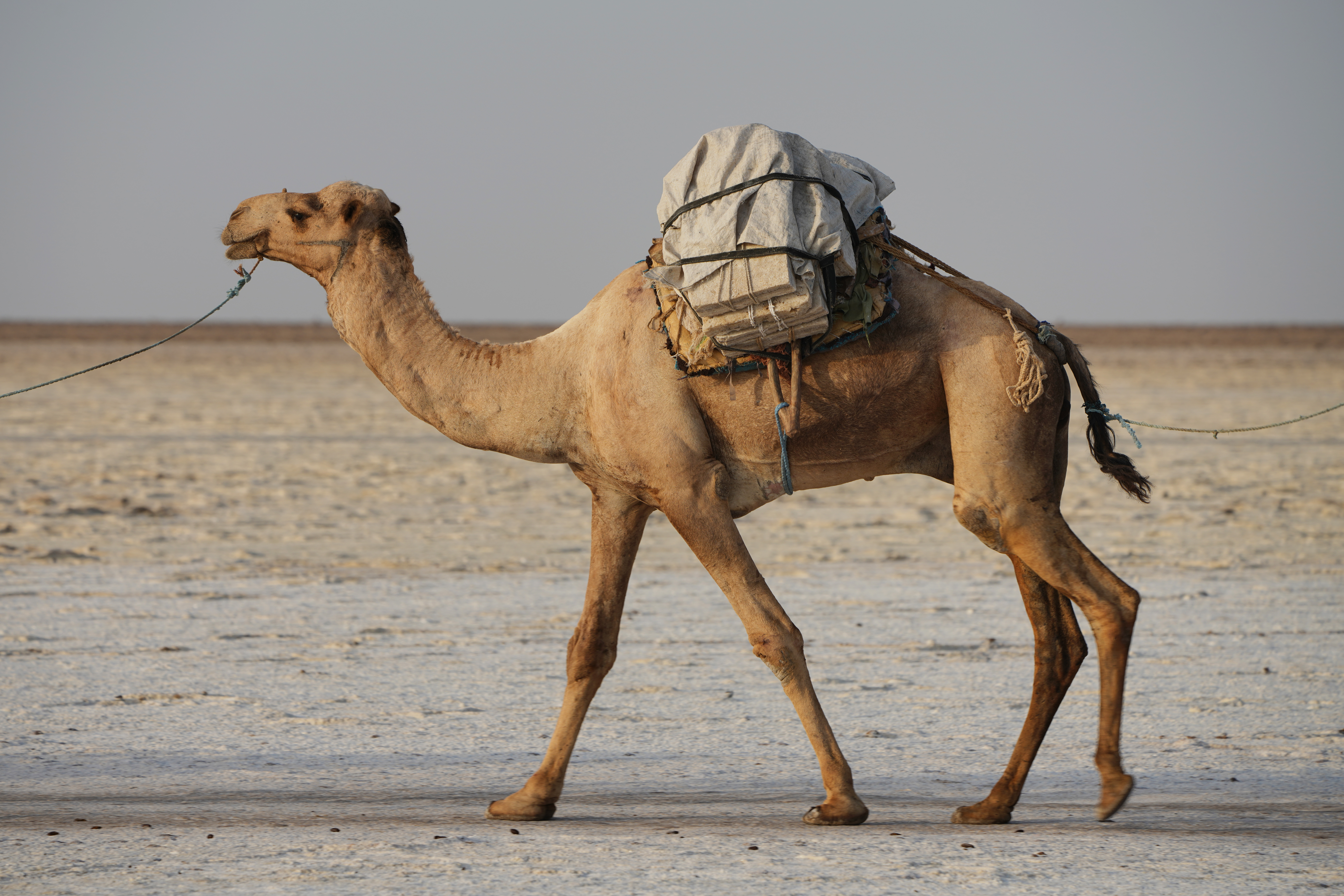 Camel caravan from the salt works – salt desert at Lake Karum, Afar Region, Ethiopia